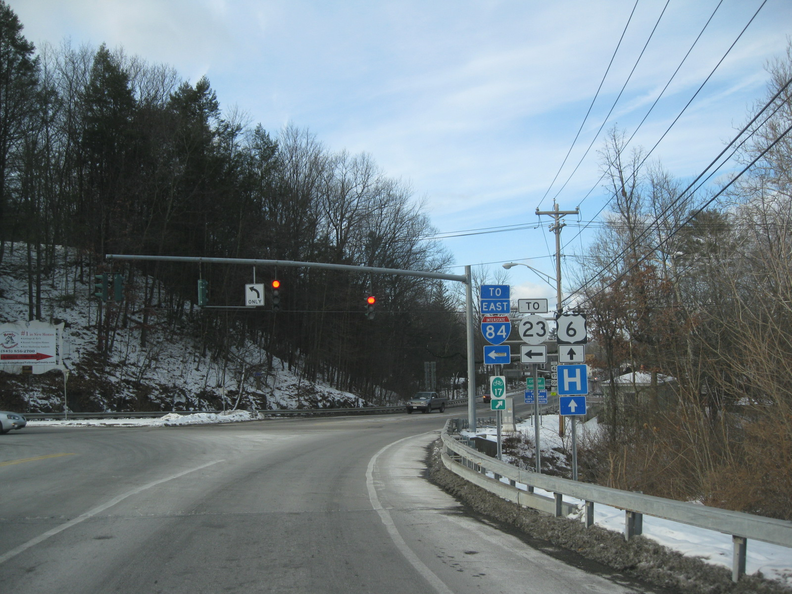 US Route 6 - New York heading towads Orange County Route 15 in Port Jervis.